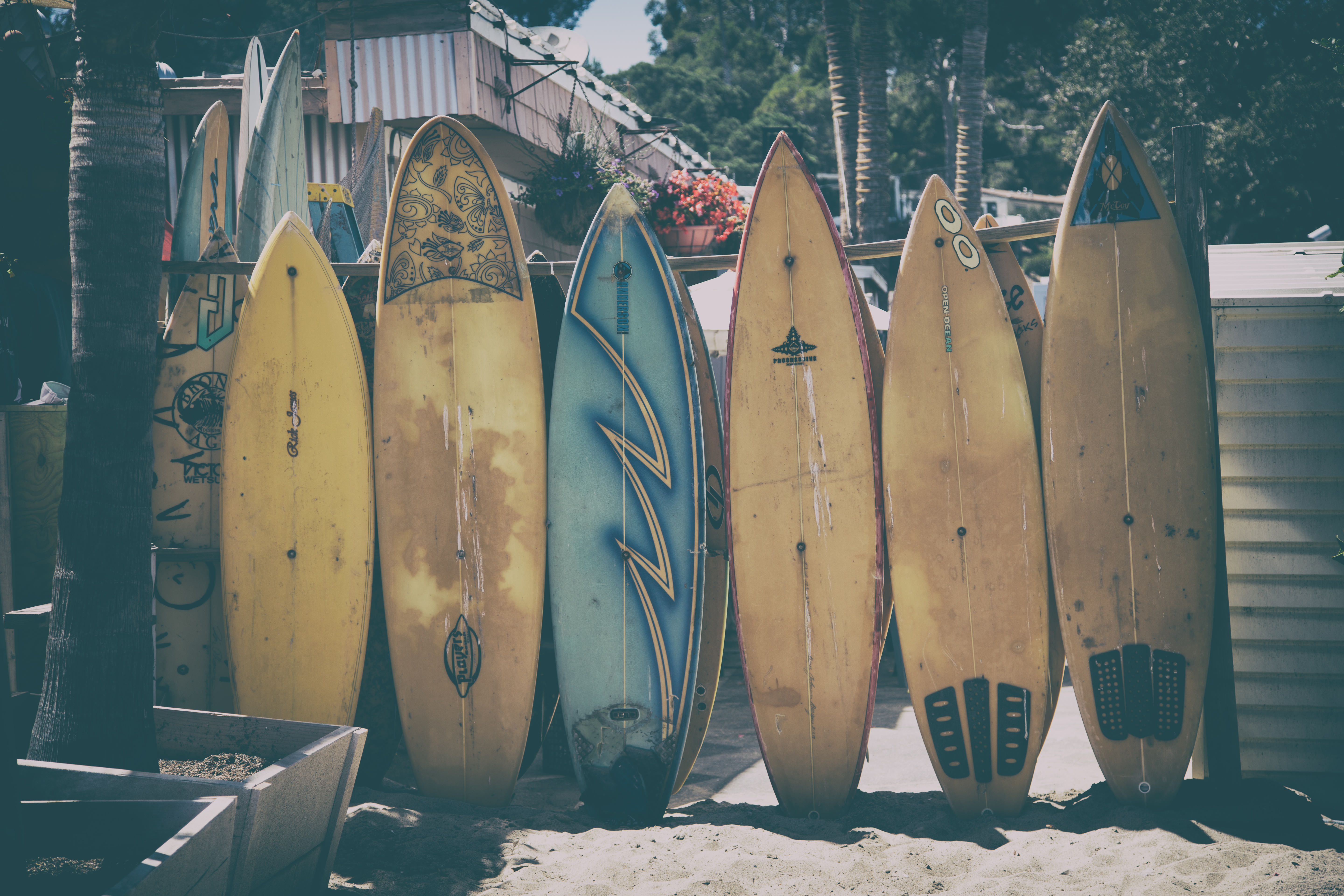 Lords of the Boards